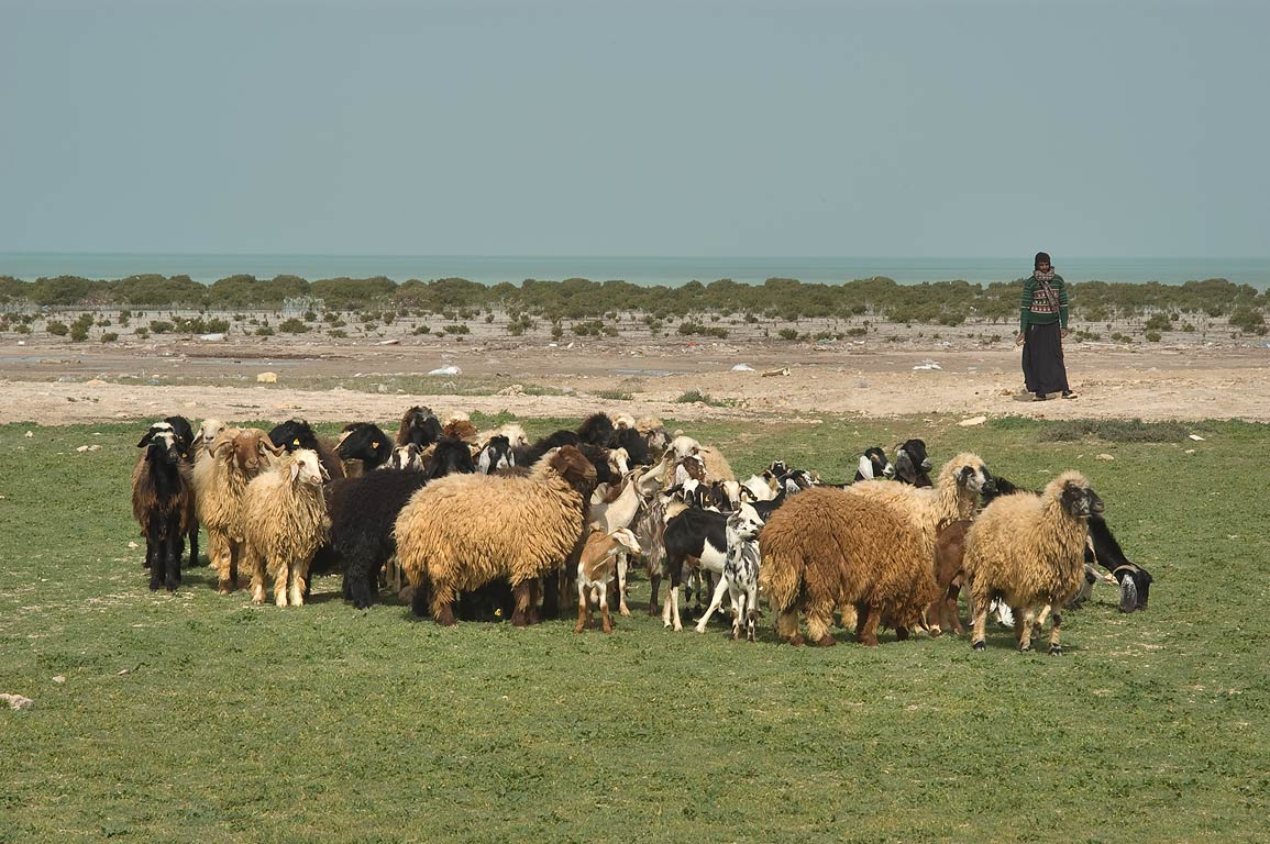 Bedouin grazing his sheep near Ruwayda archaeological site, northern Qatar.